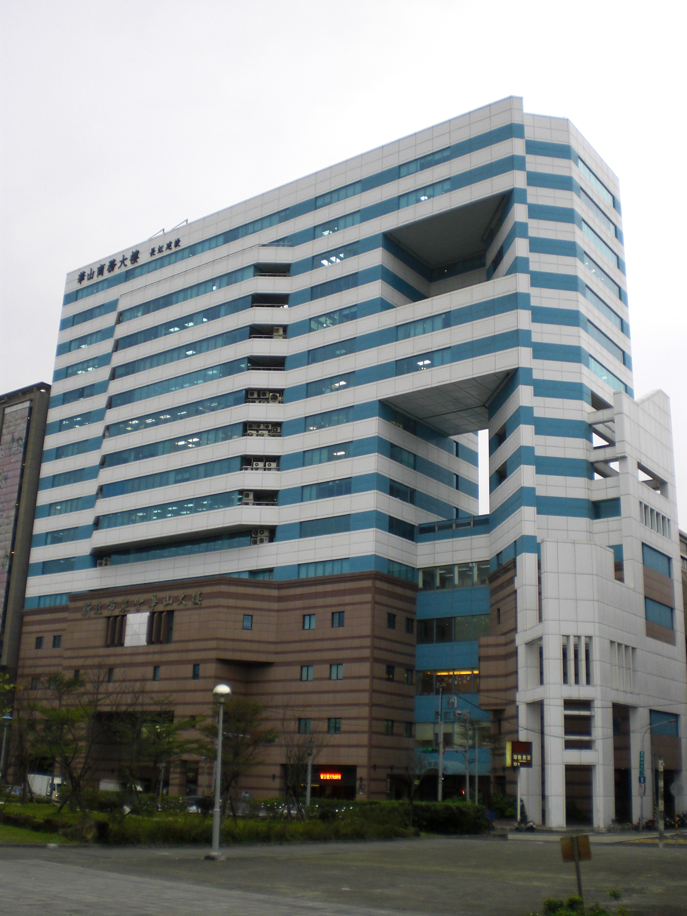 Huashan Business Building on No.30, Beiping East Road, Zhongzheng District, Taipei City, Taiwan. It's built by Chong Hong Construction.